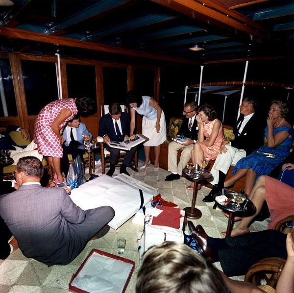 John F. Kennedy Opening Gifts with Family and Friends onboard USS Sequoia